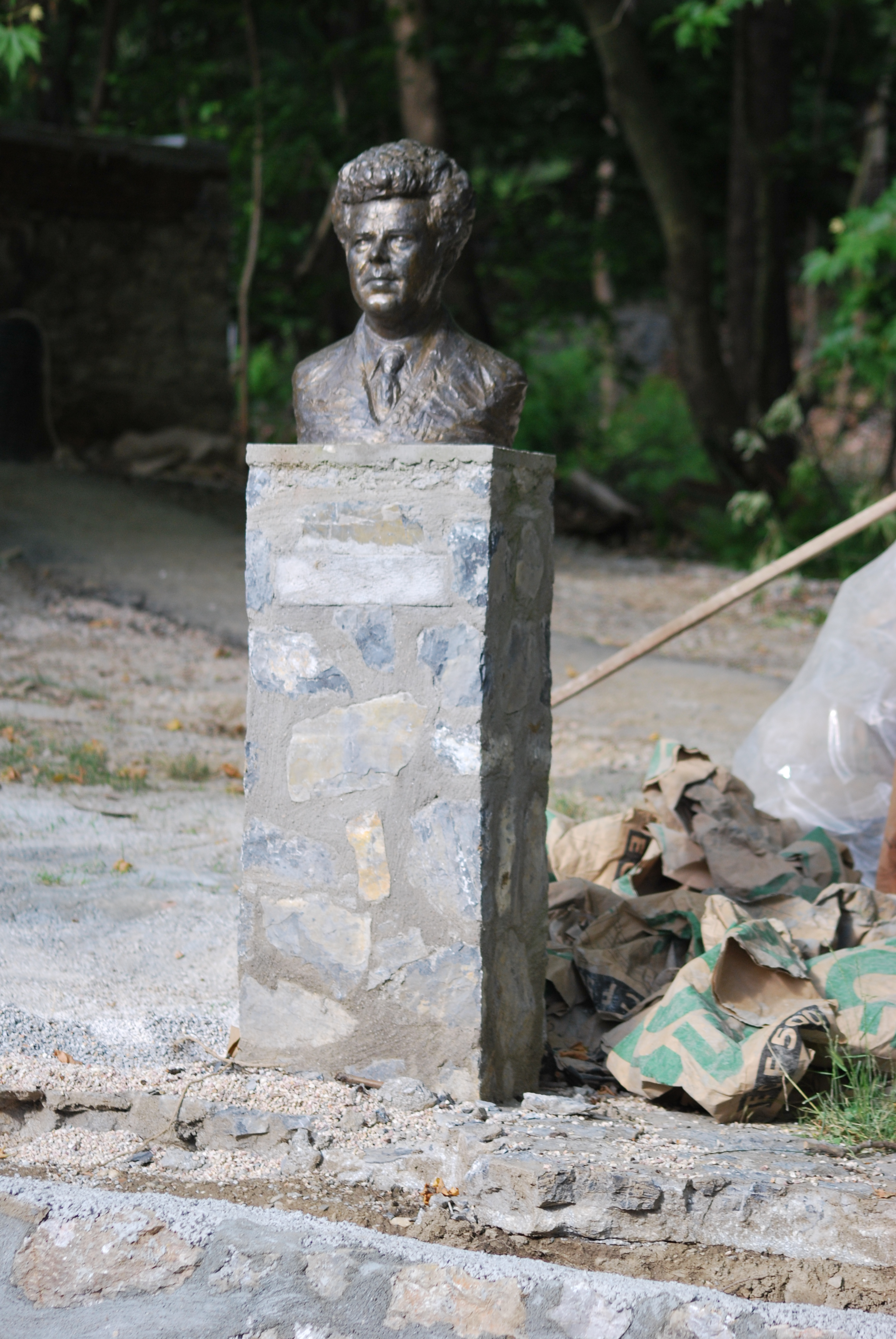 Monument of Živko Čingo in Velgošti, Macedonia